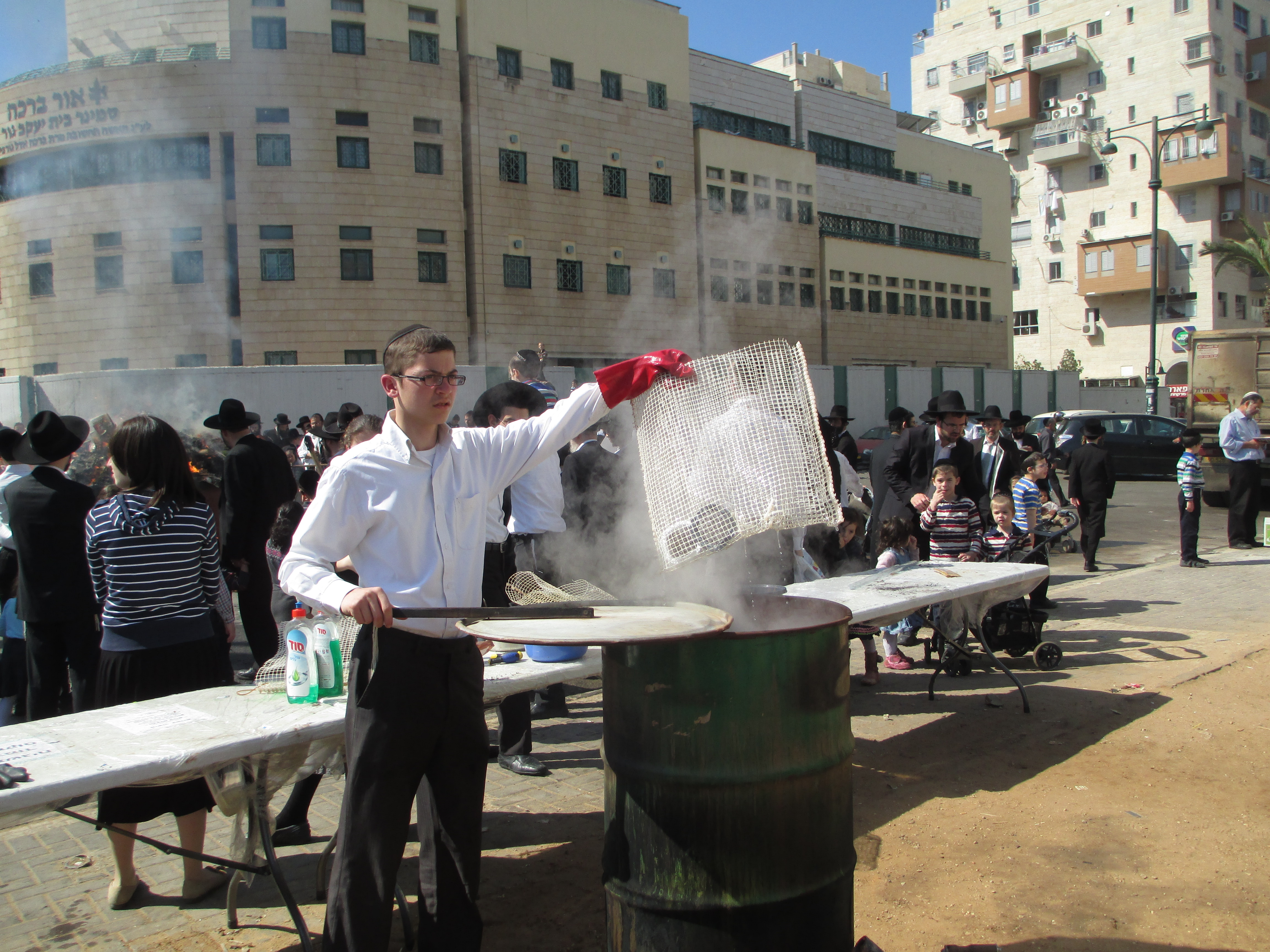 Cleansing of vessels in boiling water on the eve of Passover in Bnei Brak